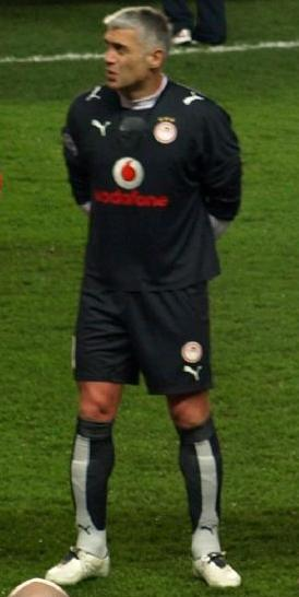 Antonios Nikopolidis playing for Olympiacos C.F.P. in 2008